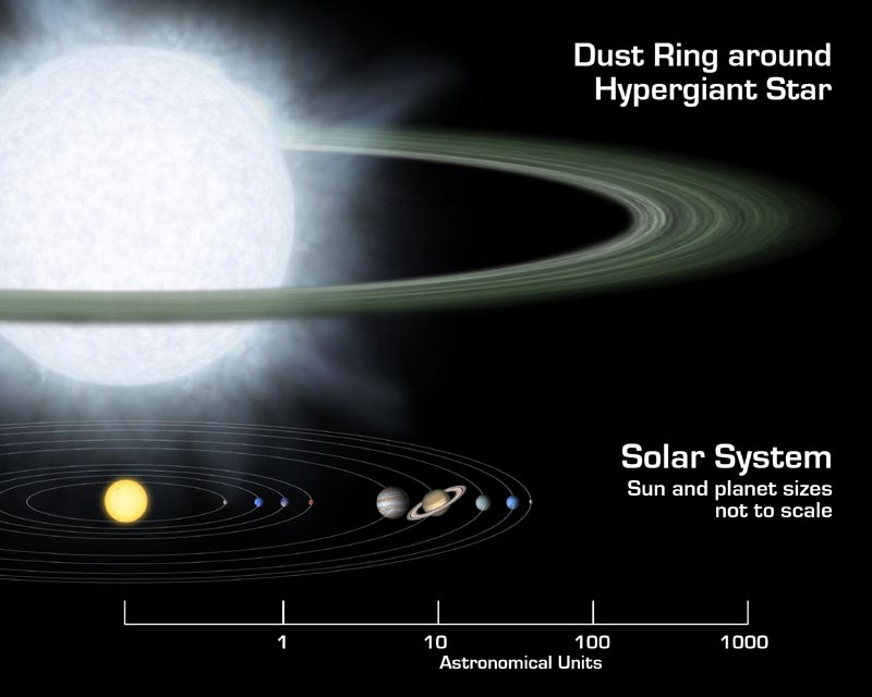 A hypergiant star and its proplyd compared to the solar system